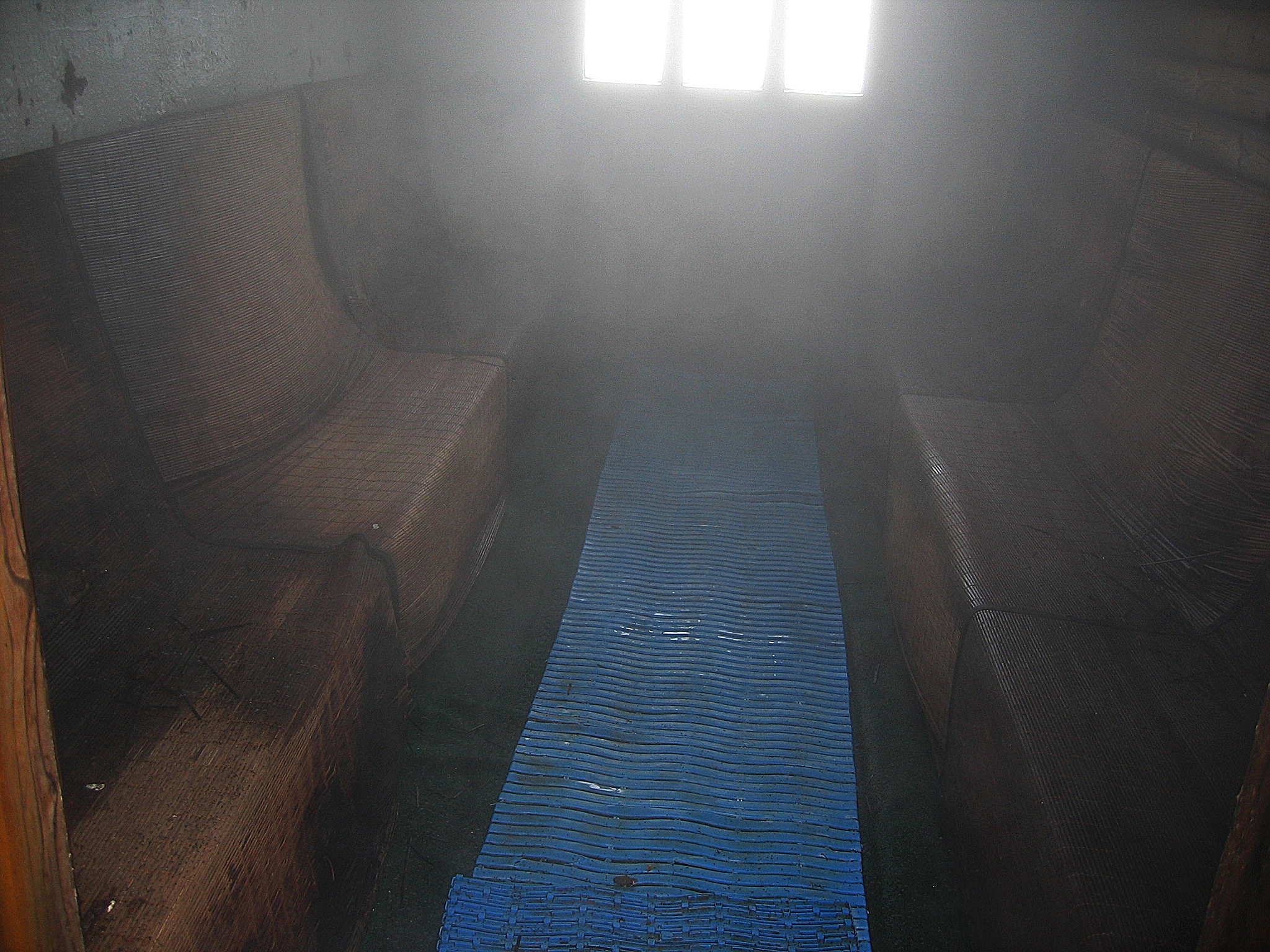 Inside the old steam bath at Laugarvatn lake in Iceland. Natural hot spring by the lakes heats the water from the lake.